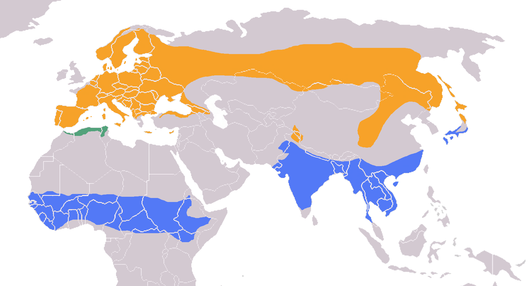 Eurasian Wryneck (Jynx torquilla) distribution map